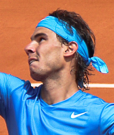 This file is originally uploaded by Good twins on wikimedia commons. This is the edited version of the photo and I was the one who edit it. No Copyright Infringement Intended